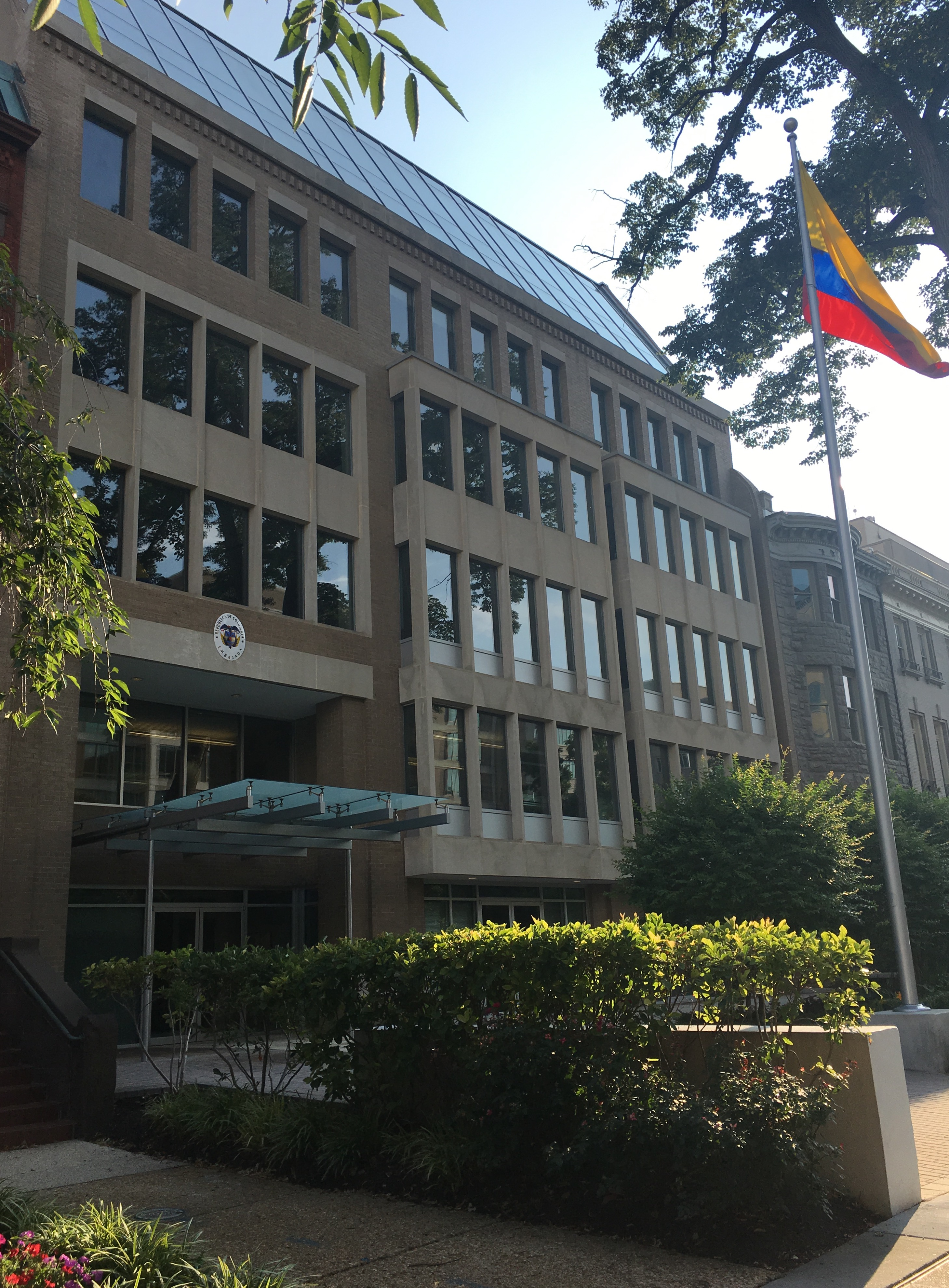 Embassy of Colombia in Washington D.C.